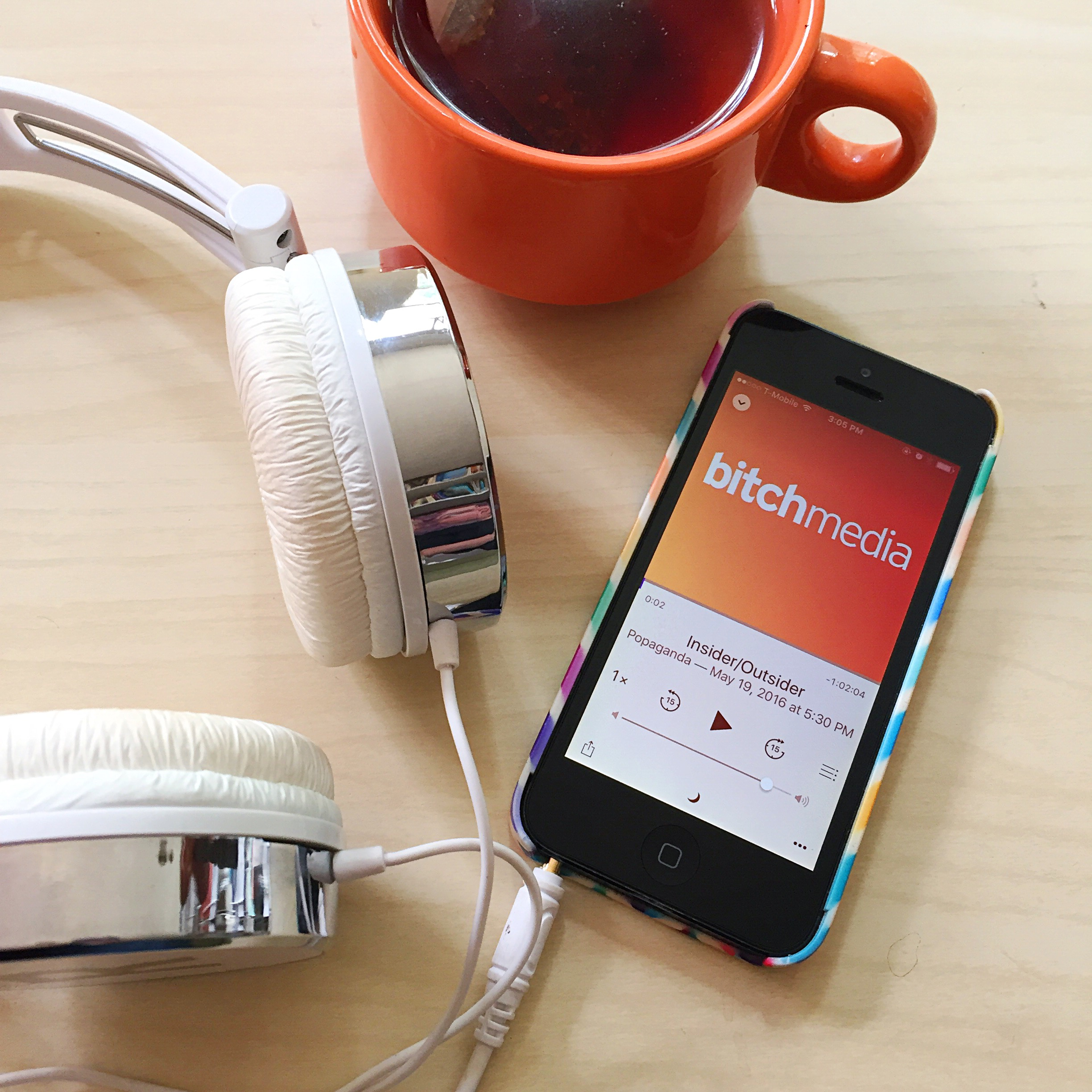 This photo shows the iTunes podcast app playing Popaganda, a feminist podcast produced by Bitch Media.